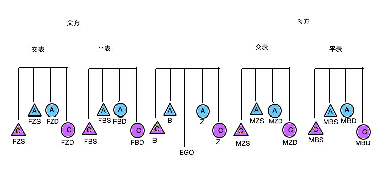 戈族親屬稱謂 II